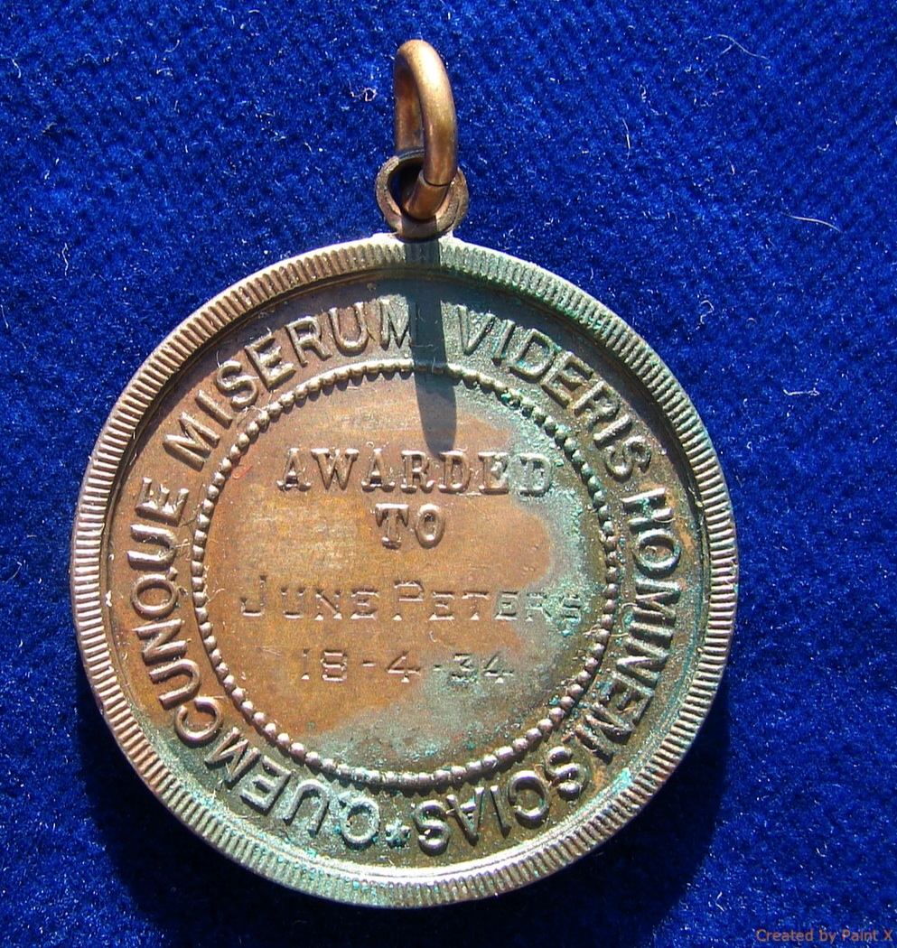 Bronze medallion, d= 30 mm, 3 mm thick. With loop for ribbon suspension. One swimmer rescuing the other, one with his/her hands on the side of the head of the second person. The whole bodies of both swimmers are clearly seen. The background shore is indistinct. Surrounding in a roman font: "THE ROYAL LIFE SAVING SOCIETY. The edge of this side has a milled pattern. / Around the edge that has a milled pattern: “QUEMCUNQUE MISERUM VEDERIS HOMINEM SCIAS” which may be translated as ‘Whomsoever you see in distress, recognize him as a fellow man.’ In the centre in two lines: “AWARDED TO” followed by a space in which the recipient’s name and the date of awarding were added: "JUNE PETERS 18 - 4- 34". Condition: EXTREMELY FINE, tarnish on the reverse.